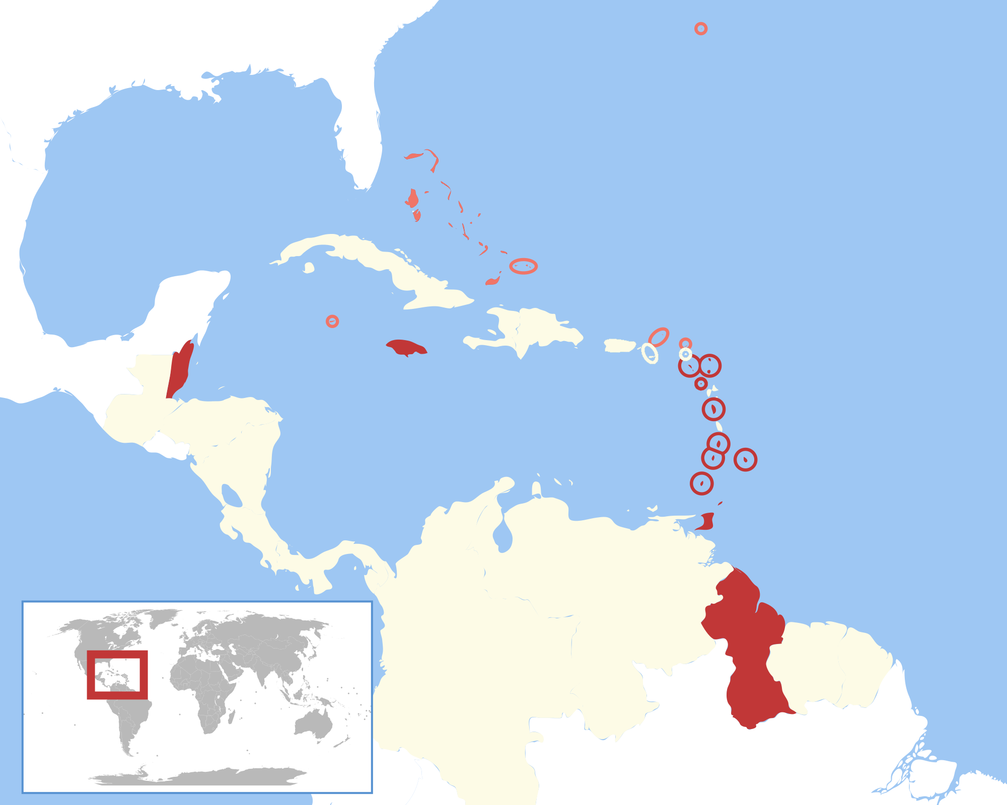 Map of the Caribbean Free Trade Association (CARIFTA) and the rest of the Commonwealth Caribbean in 1971-1972 based on Commonwealth Caribbean.svg by Dank · Jay CARIFTA Member States Other Commonwealth Caribbean territories that were eligible for simplified accession under Article 31 of the CARIFTA Agreement